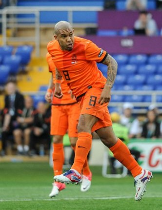 Nigel de Jong in the UEFA Euro 2012 match between Netherlands and Denmark that took place in Kharkiv. Final result was 0:1 (Krohn-Delhi)